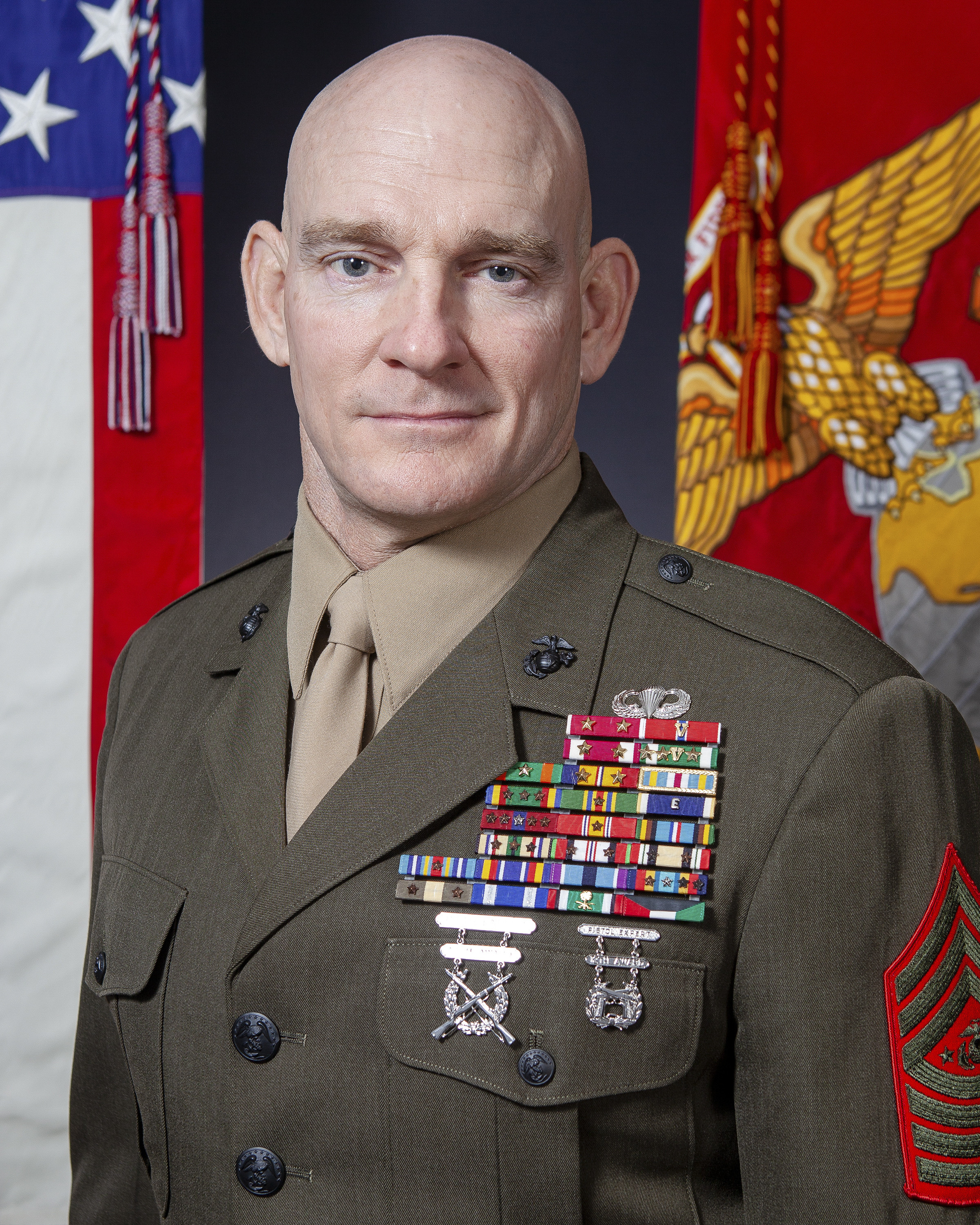 Newest portrait of Troy Black